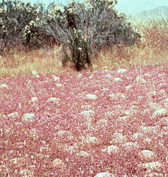 San Diego mesa mint (Pogogyne abramsii) — at San Diego National Wildlife Refuge Vernal Pools. Located in San Diego County, California.